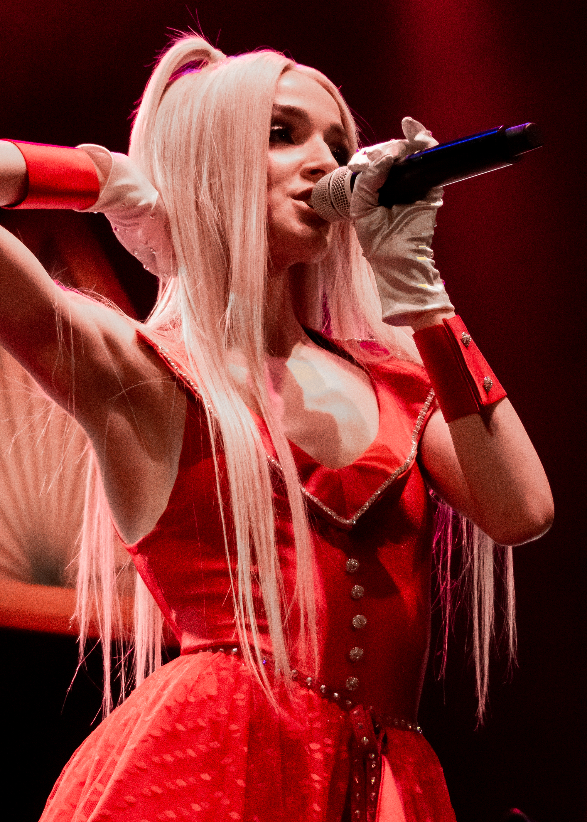 Poppy performing live at The Wiltern in Los Angeles, California, on Wednesday, October 31, 2018.